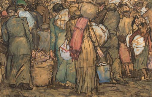 Vluchtende Belgen (Belgians fleeing), signed 'Leo Gestel' (lower right), dated '1914', and inscribed with title; black chalk and watercolour on paper; 31 x 48 cm